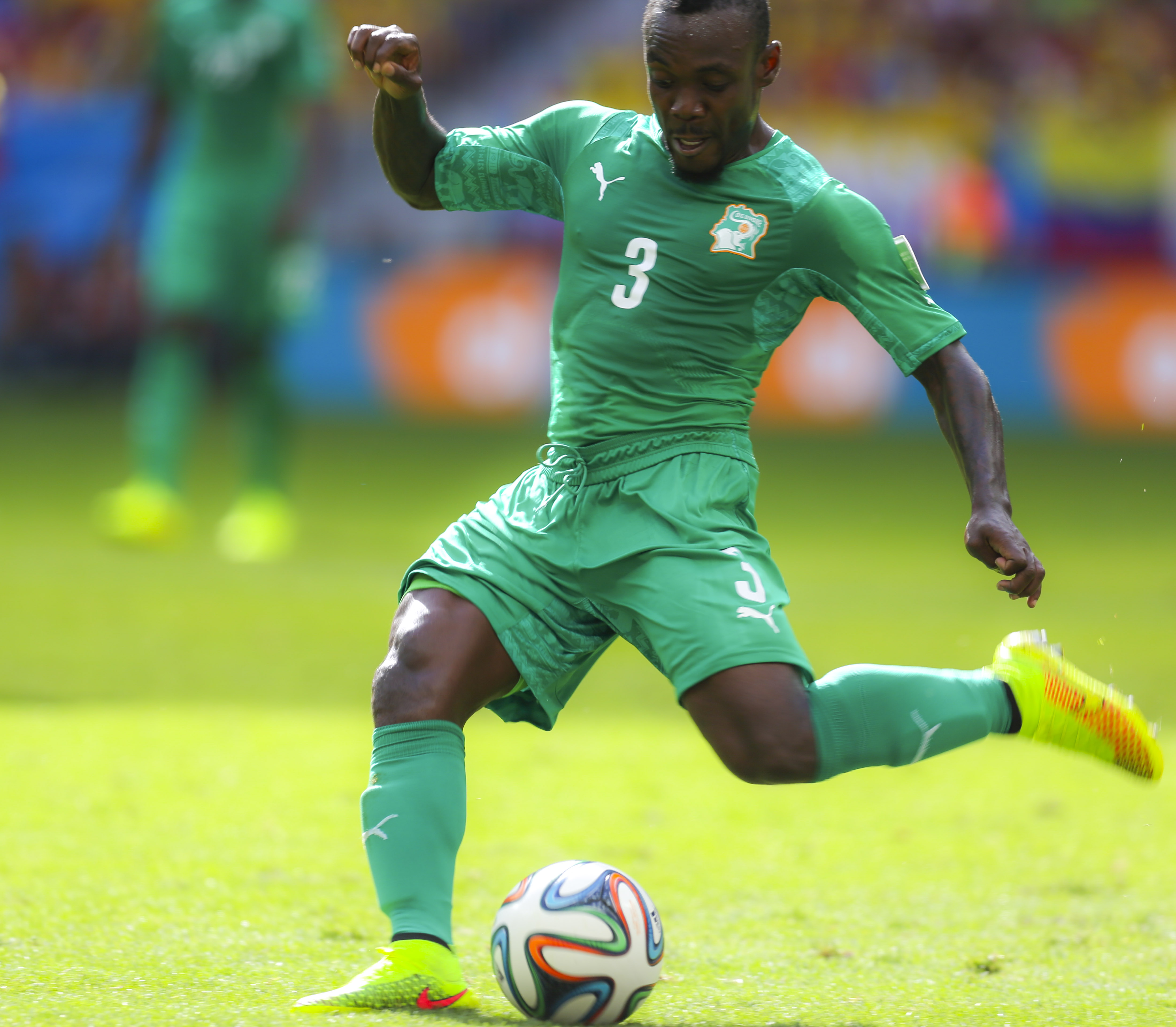 Colombia and Ivory Coast match at the FIFA World Cup 2014-06-19